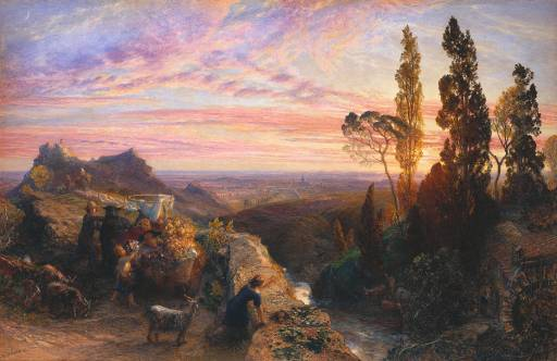 An example of Samuel Palmer's later work: A Dream in the Appenine (c.1864). Watercolor and gouache on paper laid on wood. At Tate Britain.